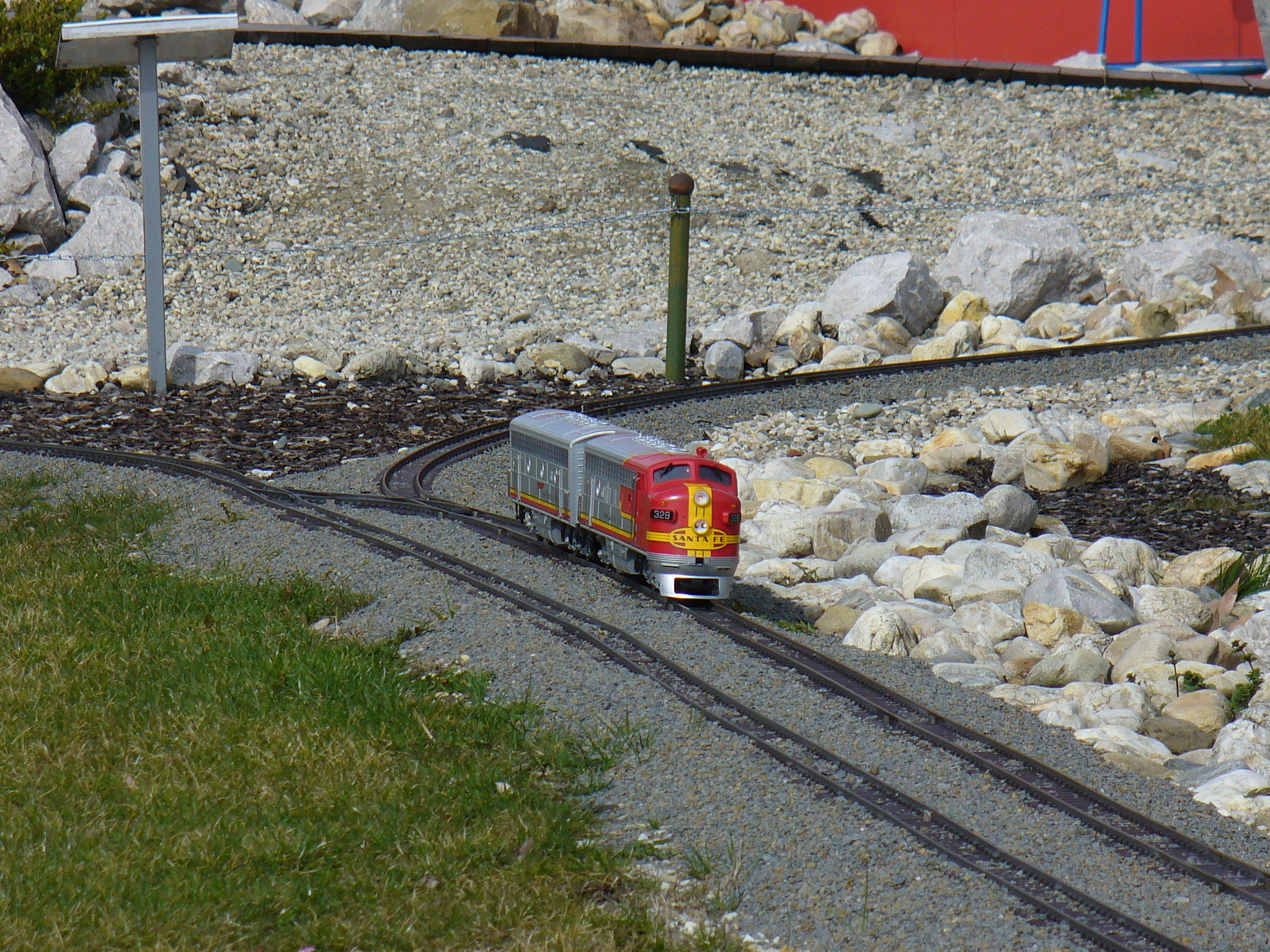 Miniature park Miniuni (Ostrava) - model of "Santa Fe" train.